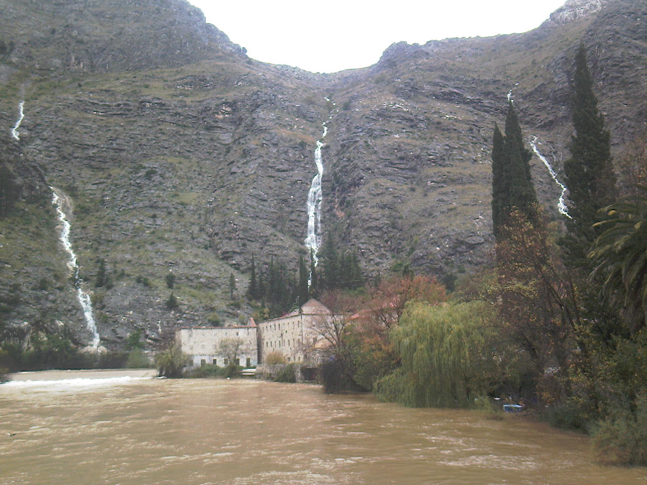 Three new springs and waterfalls above old spring of the river Ombla.